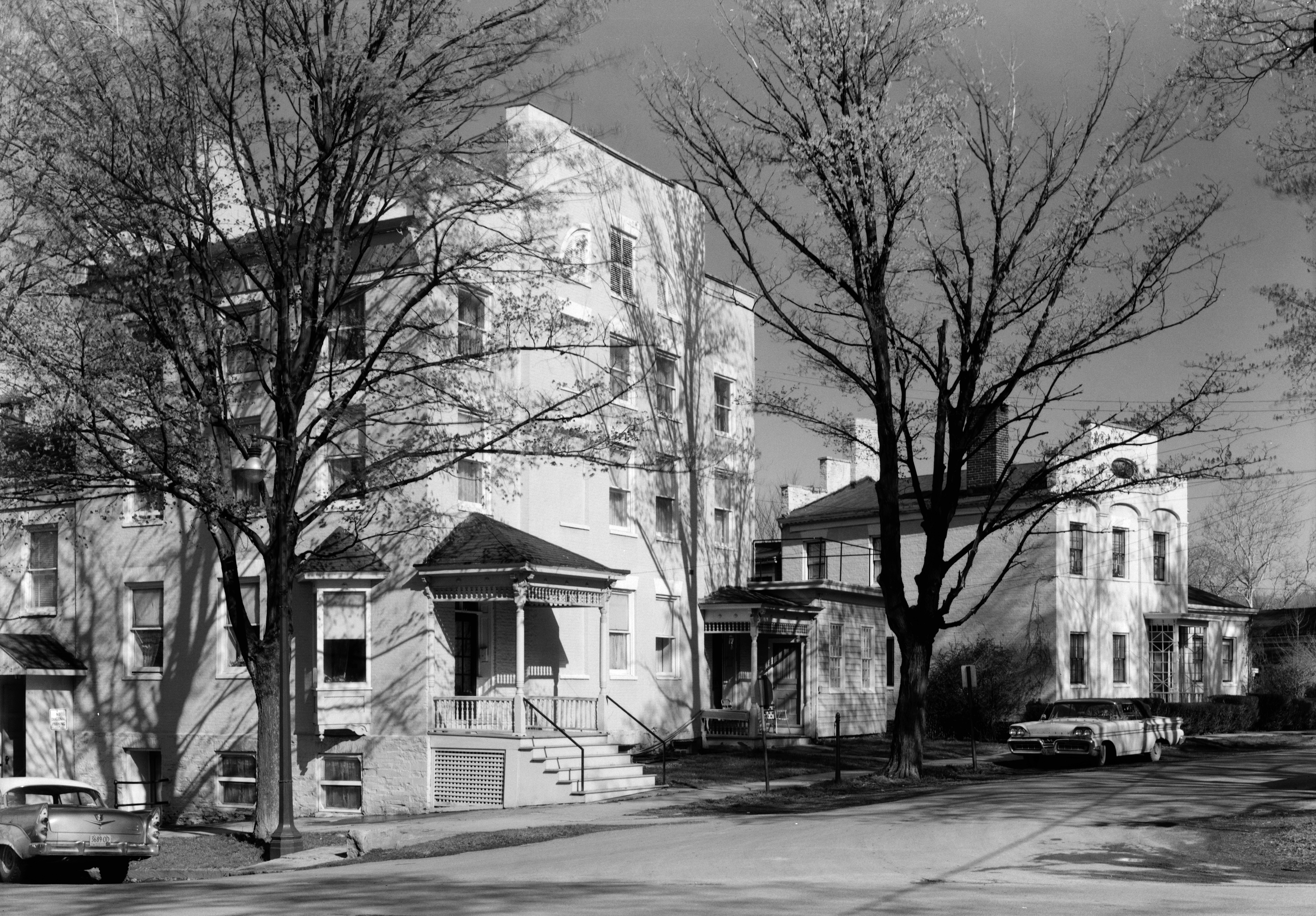 Smith Hall, Seneca Turnpike, Manlius, Onondaga County, NY.